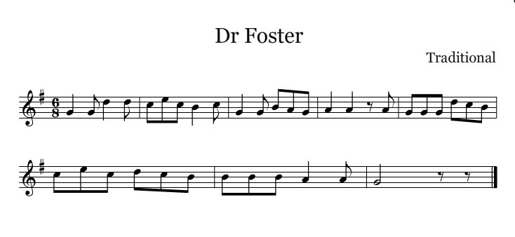 Basic melody of "Dr. Foster"